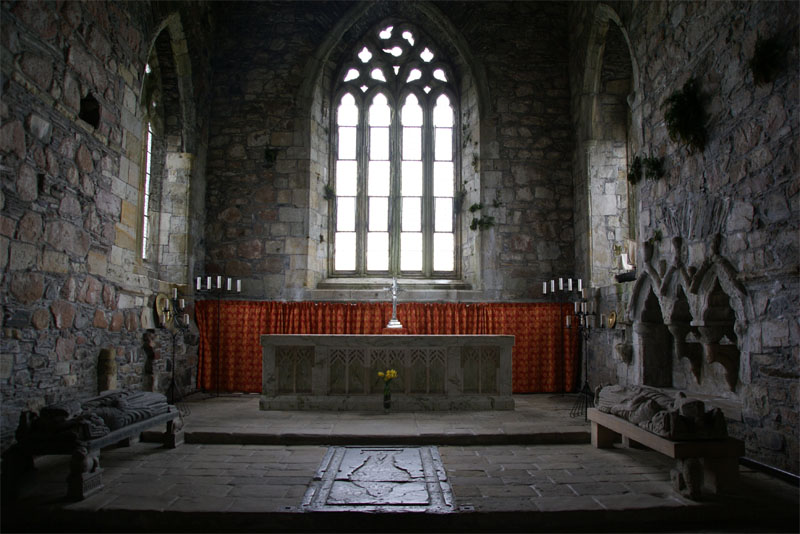 Iona Abbey - Island of Iona, Scotland - altar in abbey church